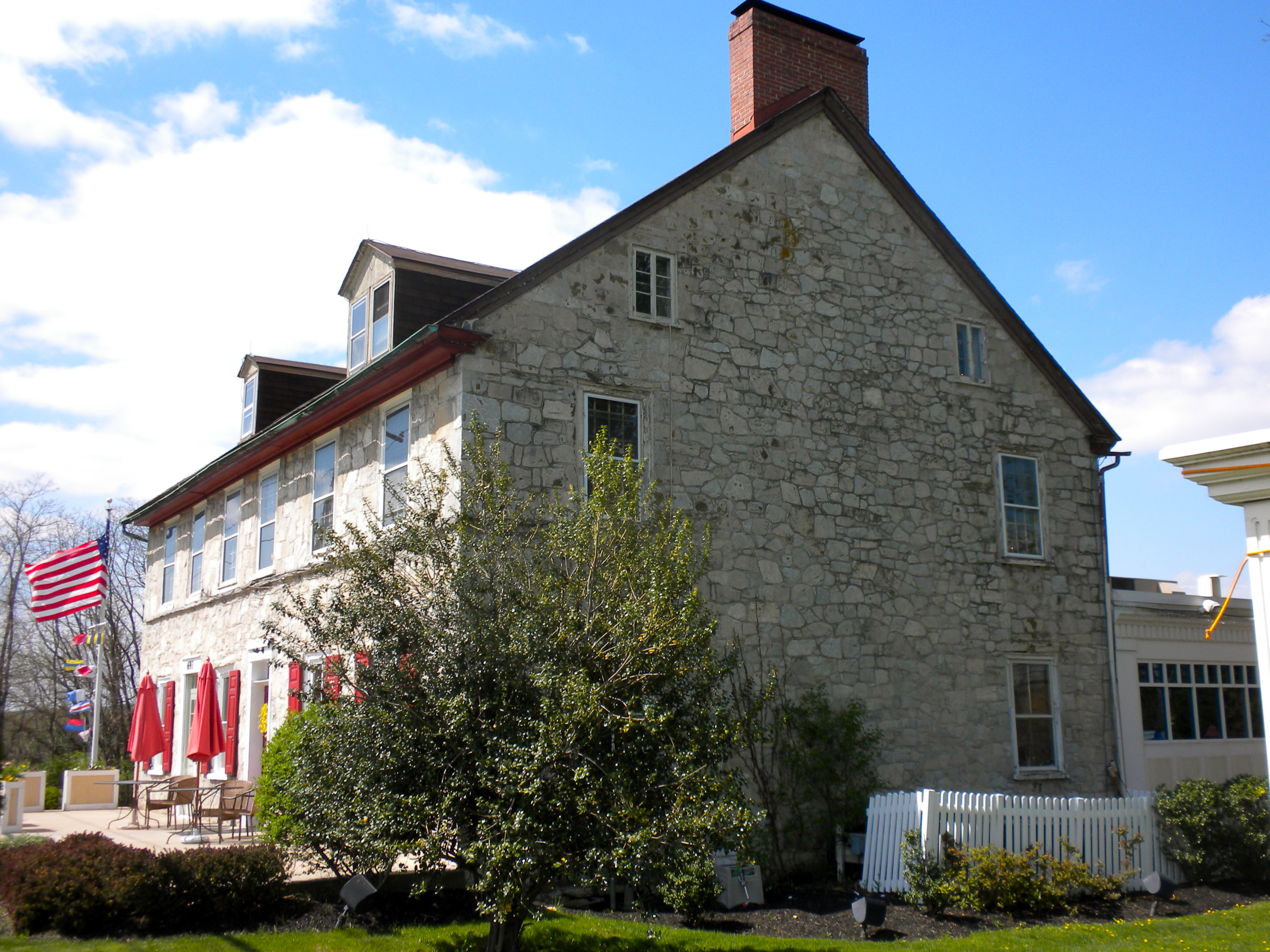 Ship Inn early tavern on road from Philadelphia to Lancaster, PA. On NRHP since August 2, 1984. At 100 North Ship Road at corner of US 30 near Exton, Chester County, PA in West Whiteland Township. Still operating as a restaurant. Half-price wine on Sundays according to the sign.